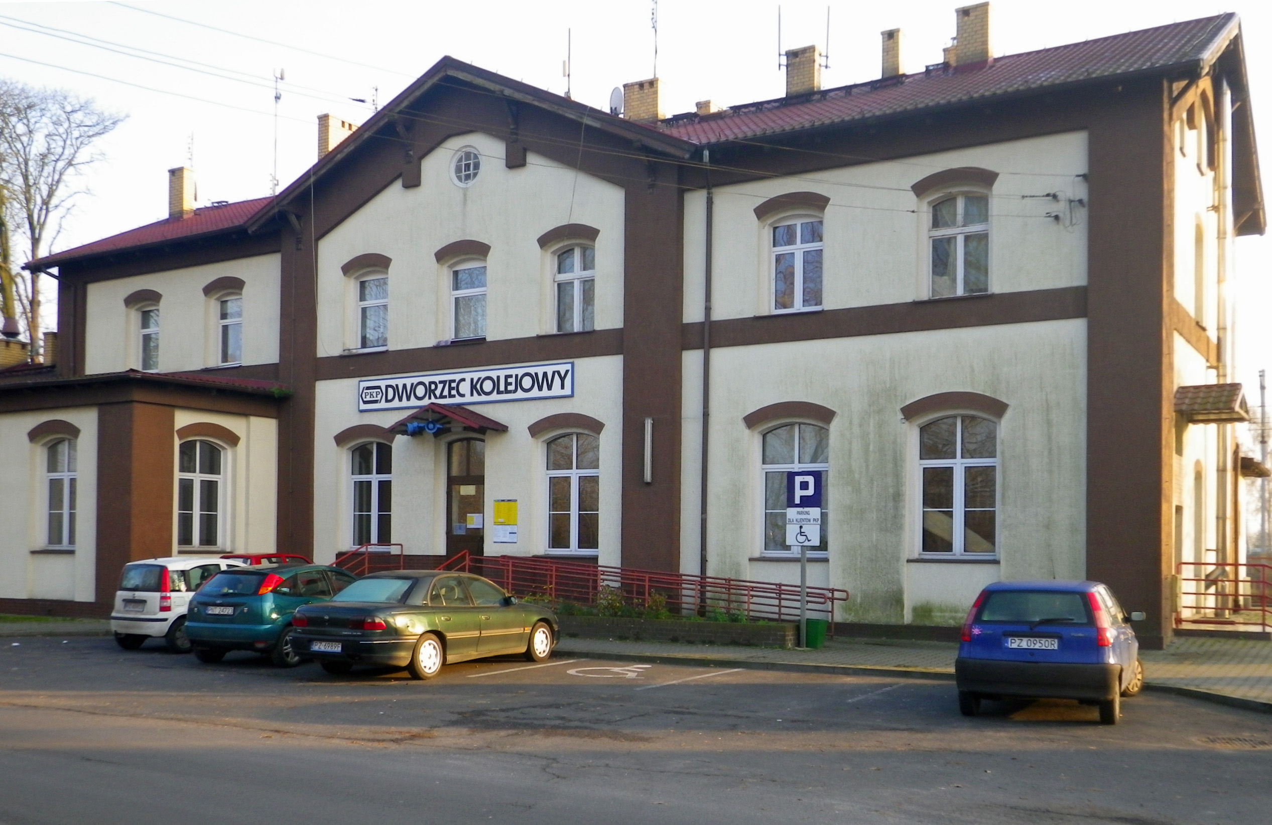 Railway station in Buk (Poland, Greater Poland Voivodeship)